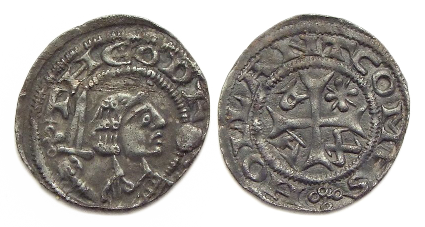 Holland, silver penny or 'kopje' with bust of Dirk VII, Count of Holland (1190-1203)